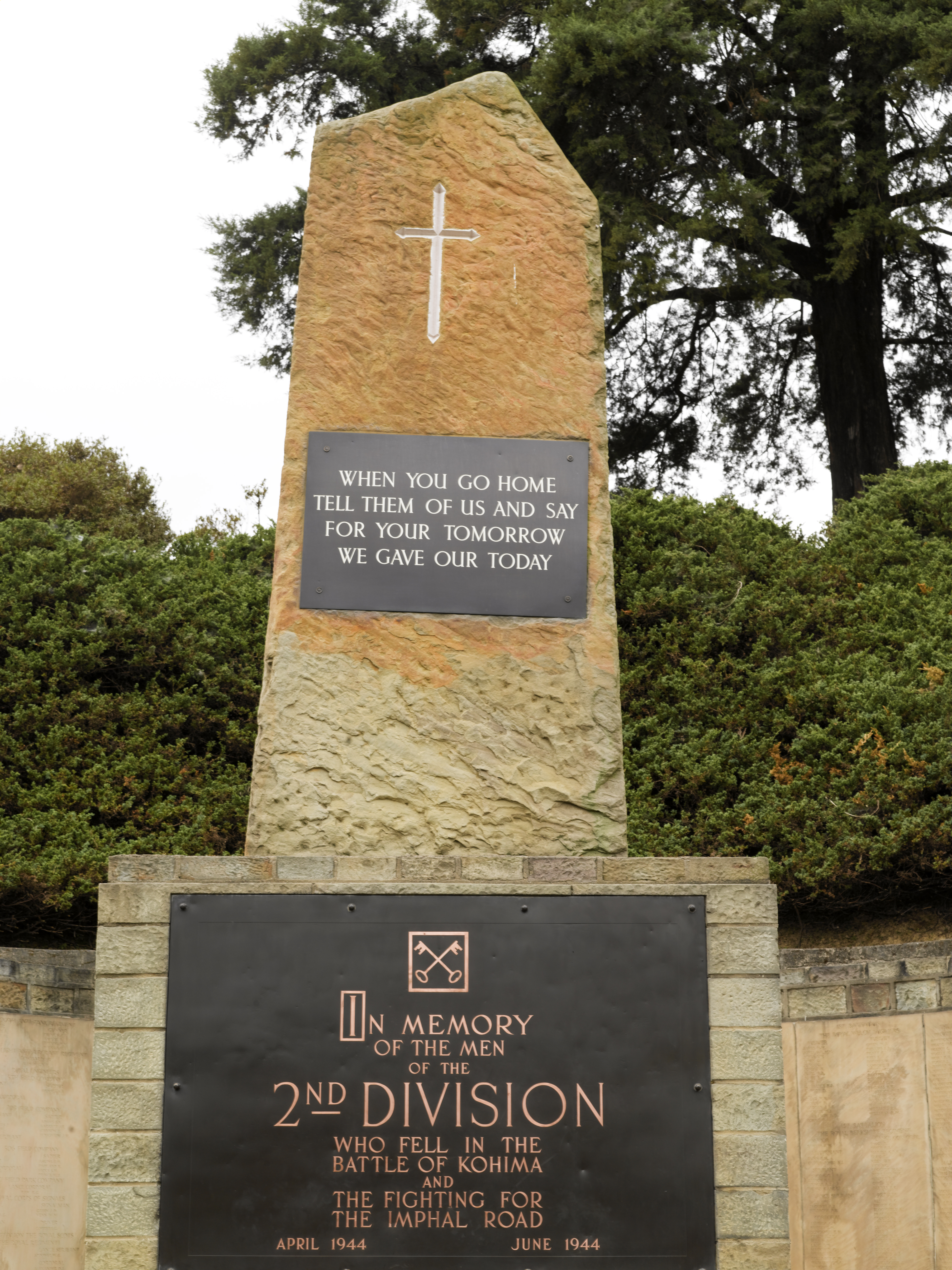 Second War memorial at Kohima, Nagaland.The Nagas participated actively to the peace in the world. These tribes from the Indo Burmese borderland were in the past great headhunters.